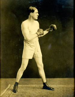 Conzelman won the middleweight championship belt in 1917 while stationed at the Great Lakes Naval Station.